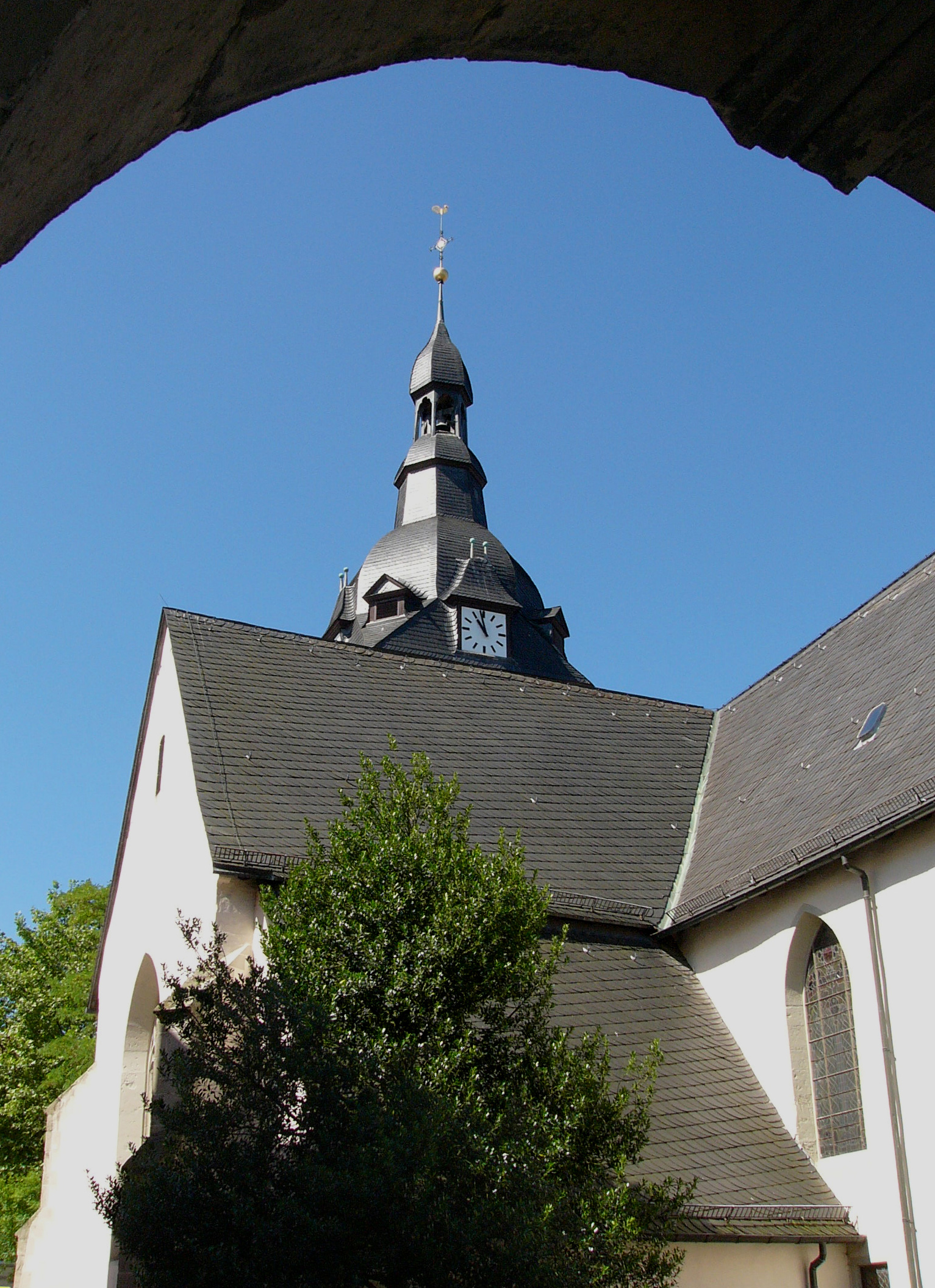 Marktkirche in Detmold, Germany